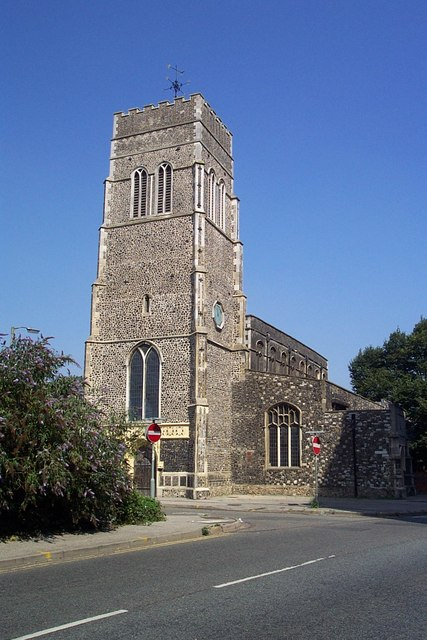 Arts Centre. Formerly the church of St. Mary at the Quay